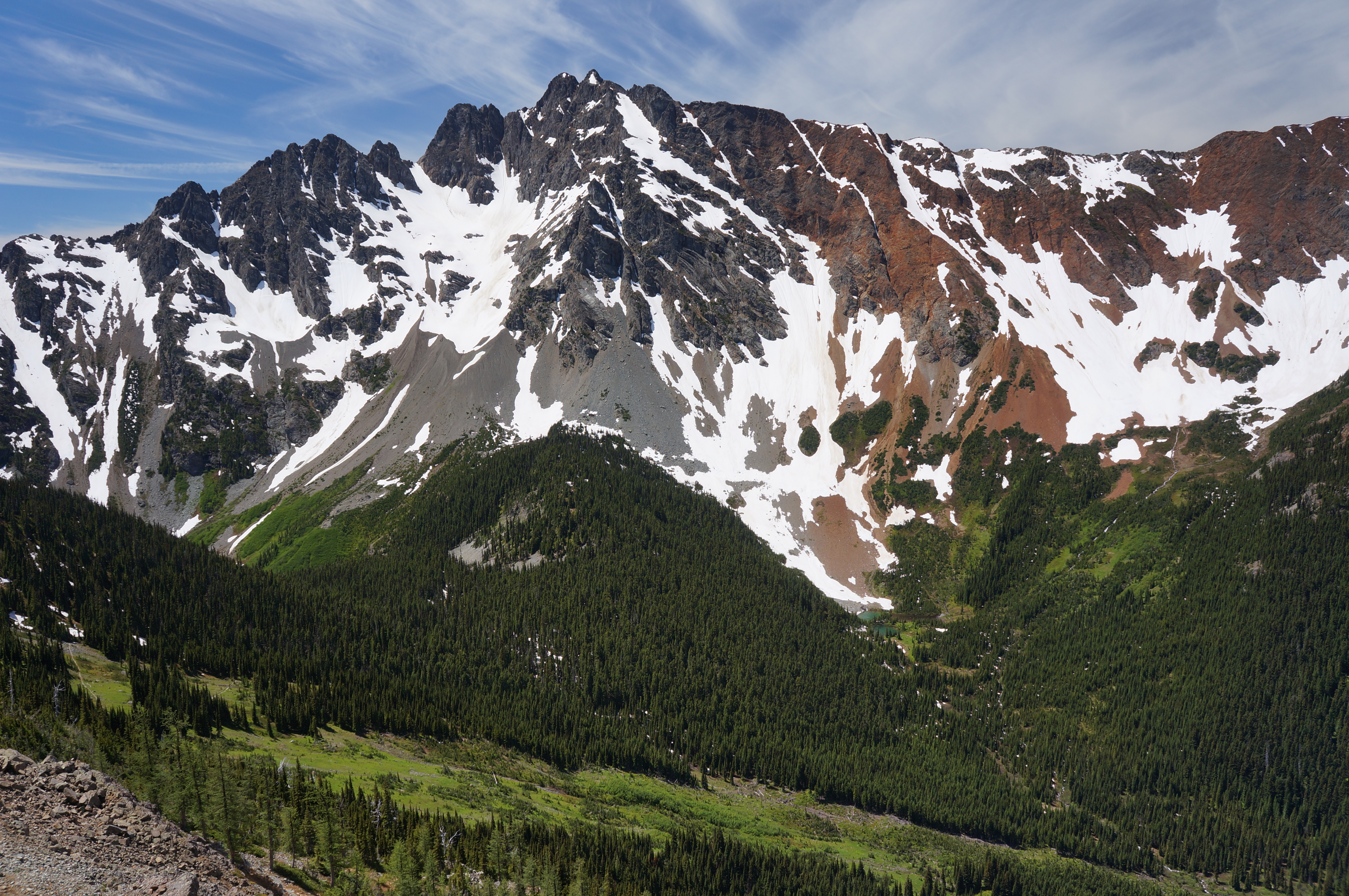 Azurite Peak seen from the east at Grasshopper Pass on the PCT. North Cascades of WA